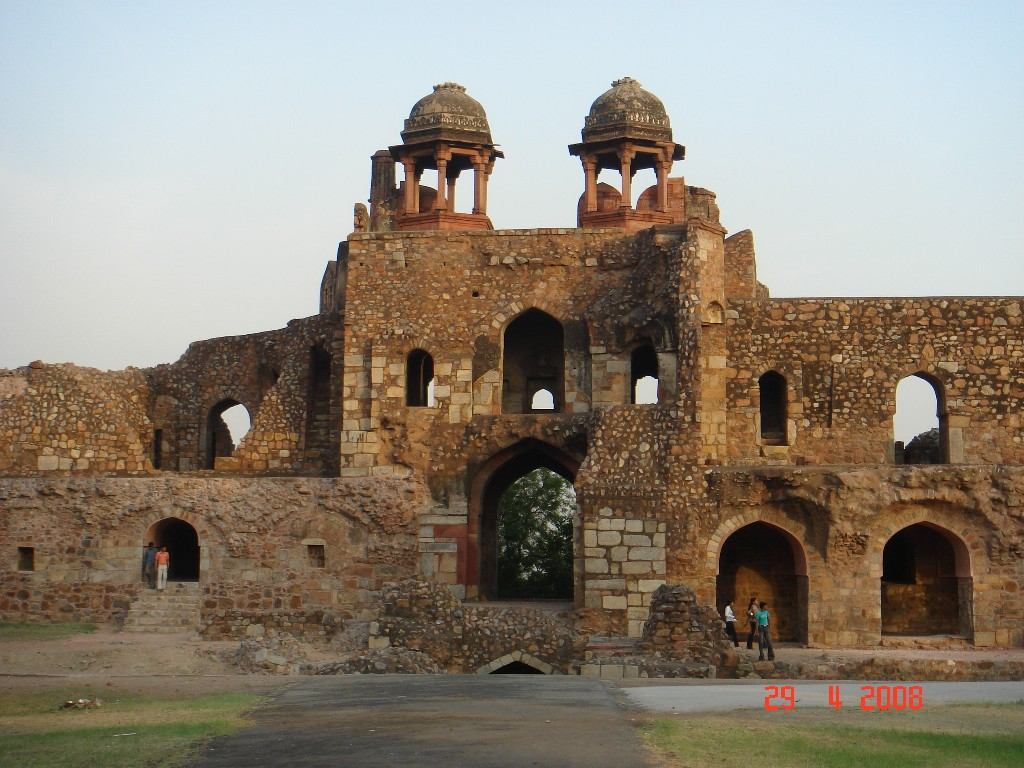 Picture taken by Kaiser Tufail during visit to Delhi, 29-4-08